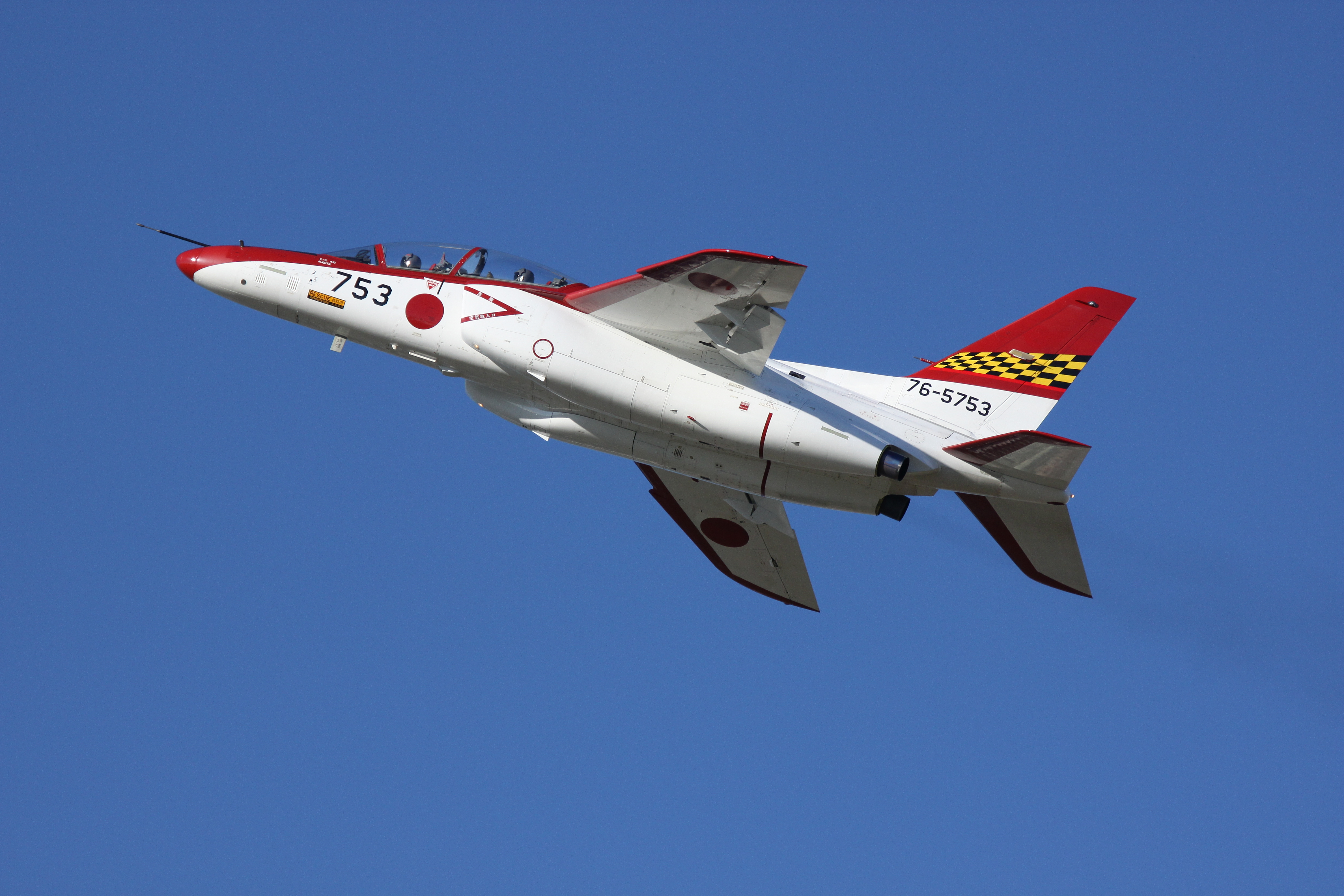 One of the joys of Japan is the colours of their aircraft.